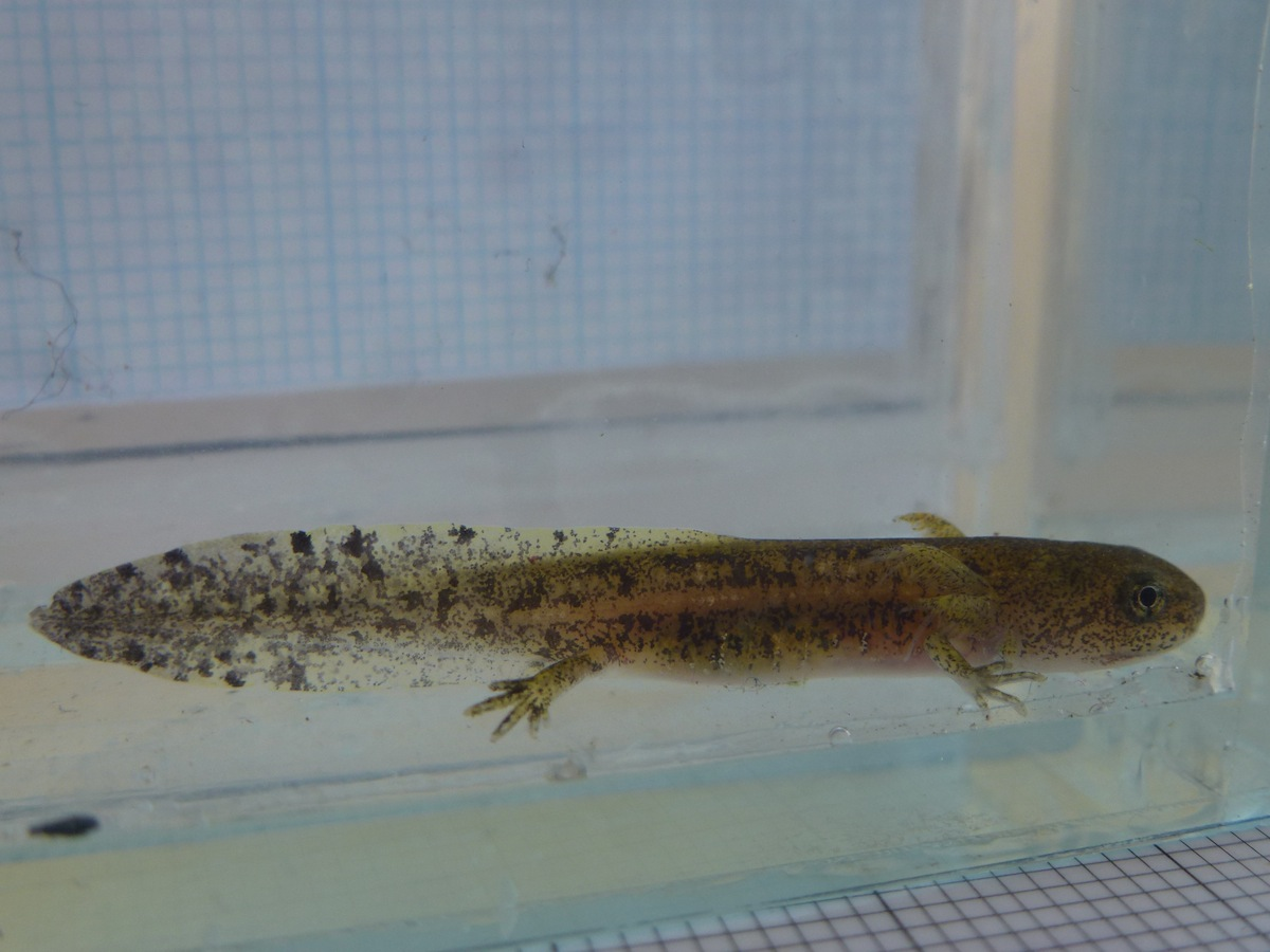 Larva of Salamandra infraimmaculata, Nahal Tsalmon, Israel